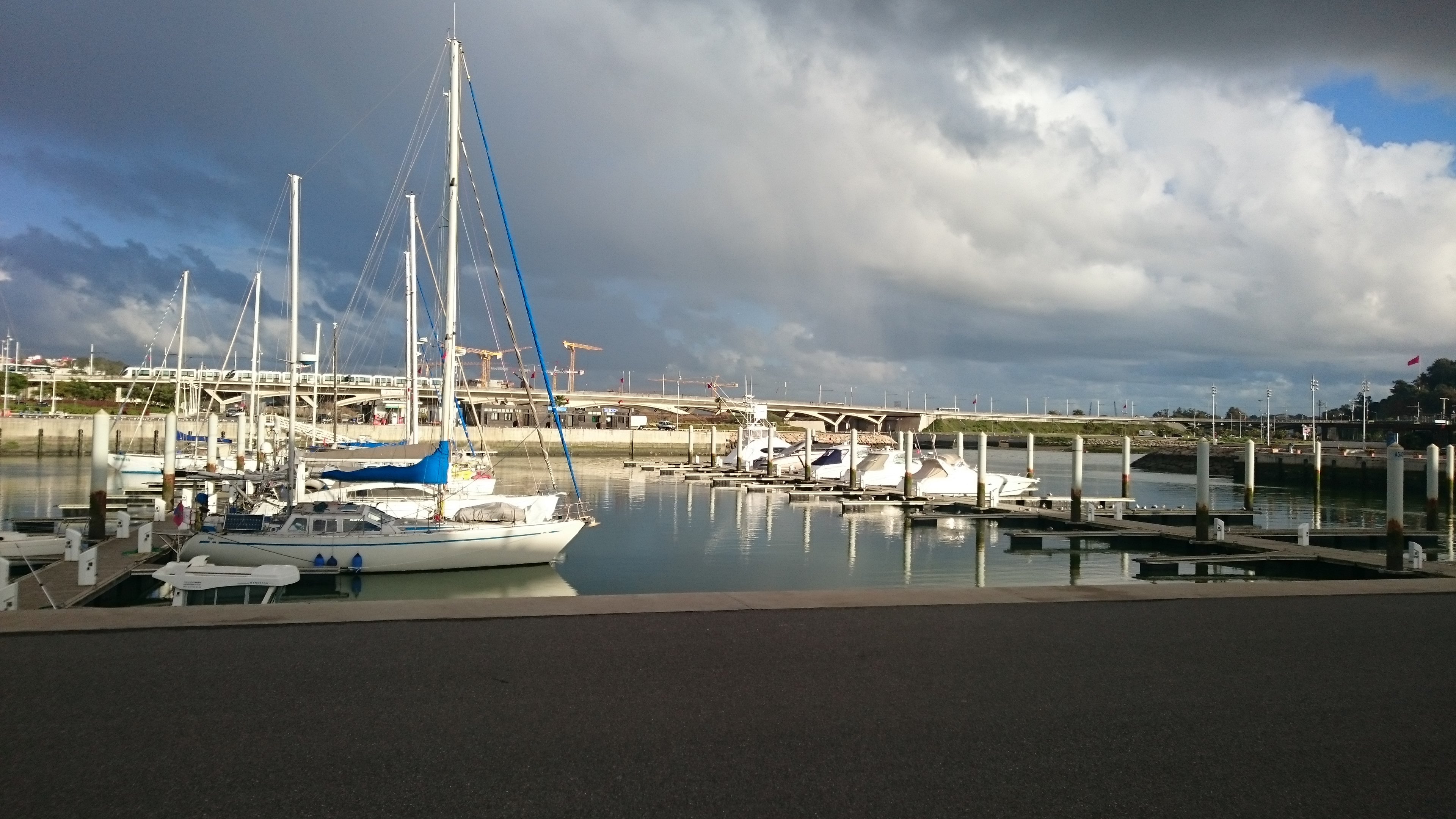 In Marina of Rabat in Morocco